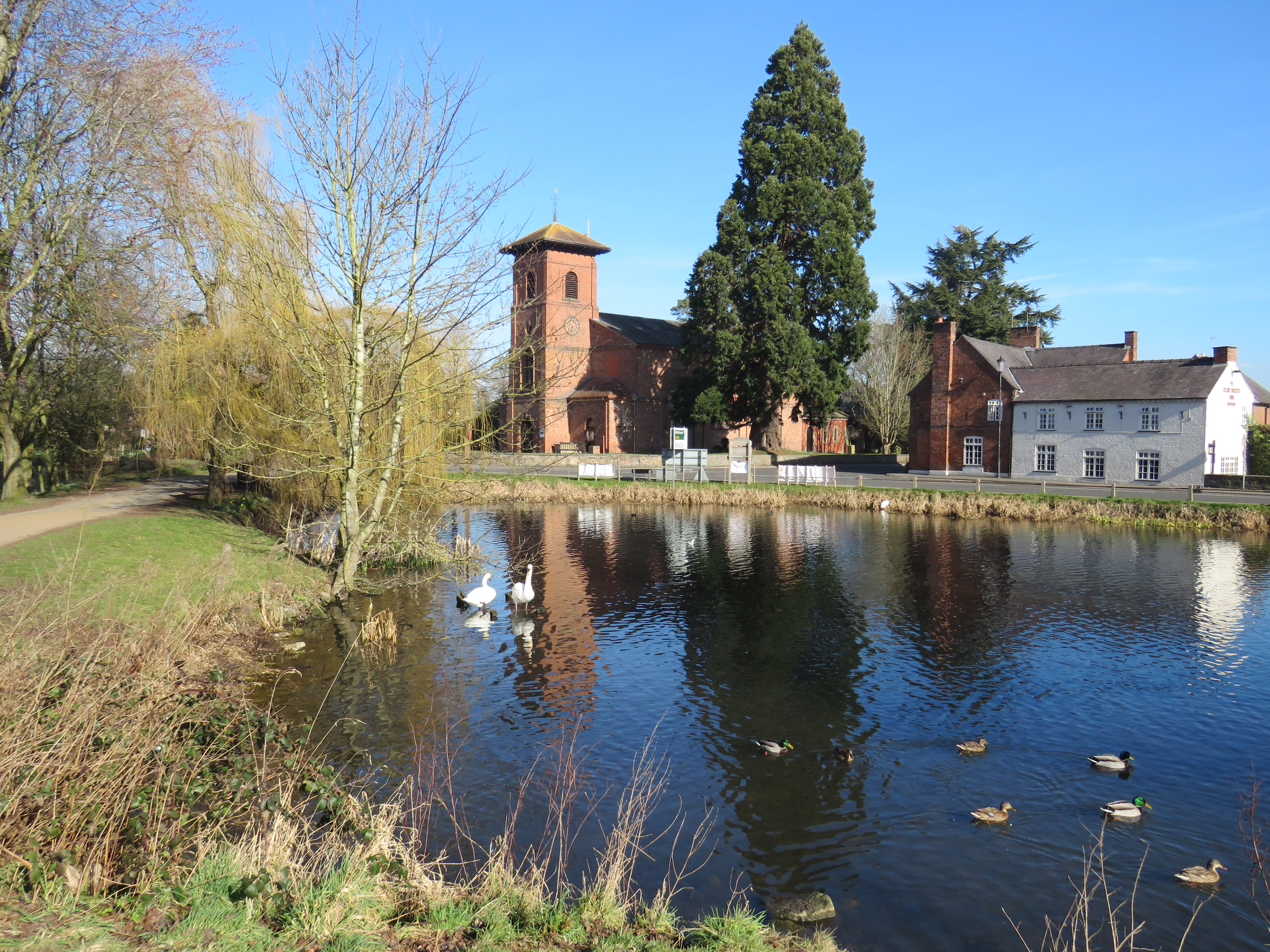 Whittington lake, Shropshire